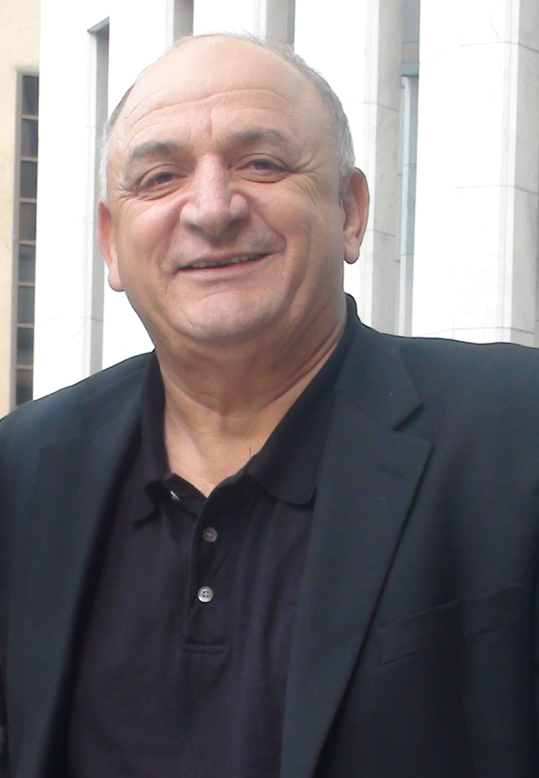 Yitzhak Tshuva, a business man from Israel